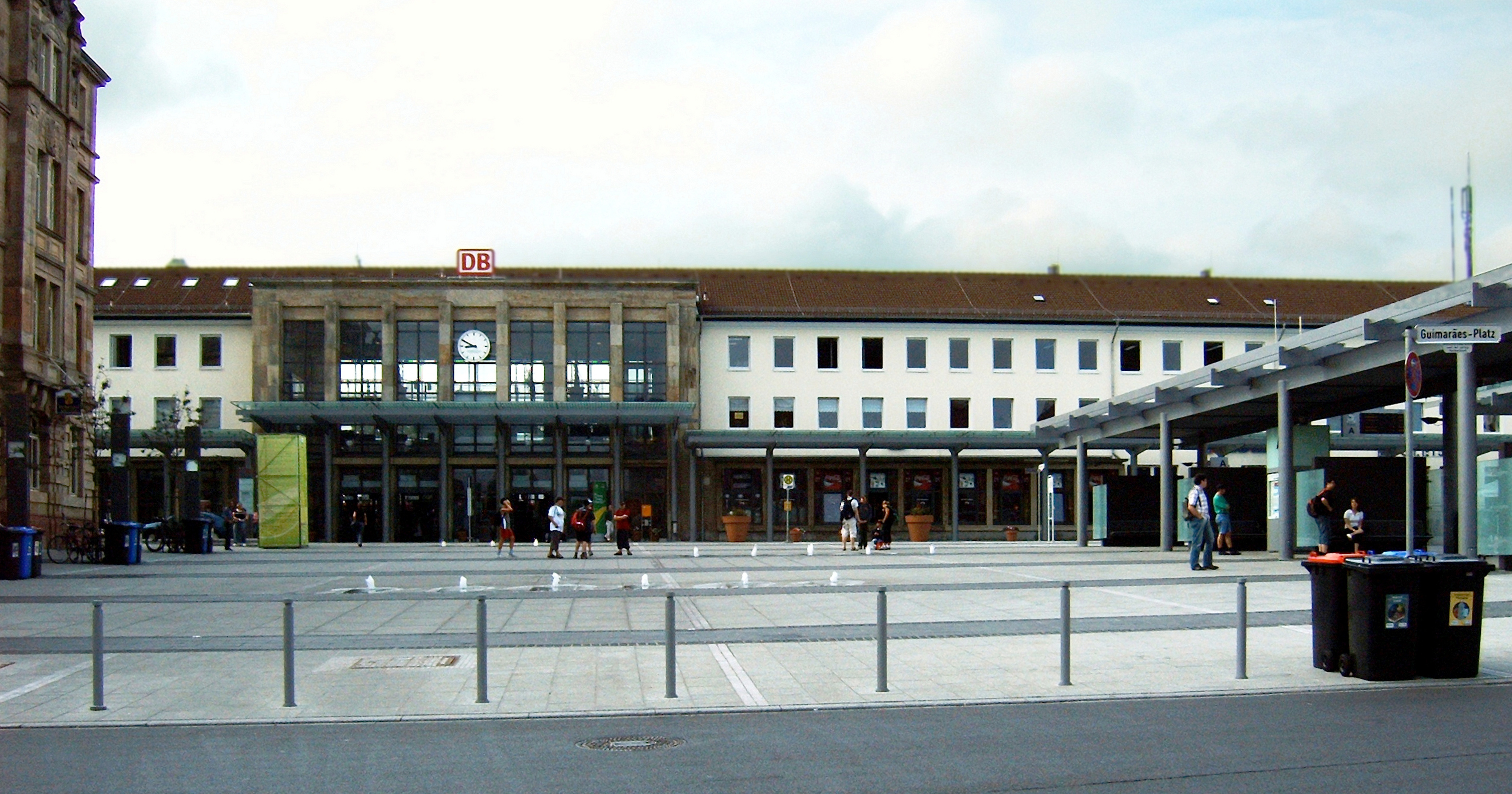 Main train station of Kaiserslautern